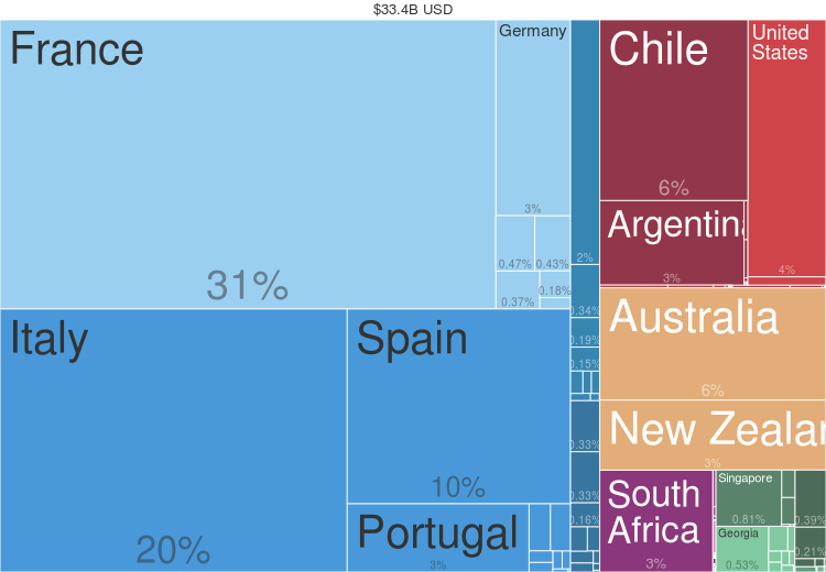 Wine Exports by Country (2014)